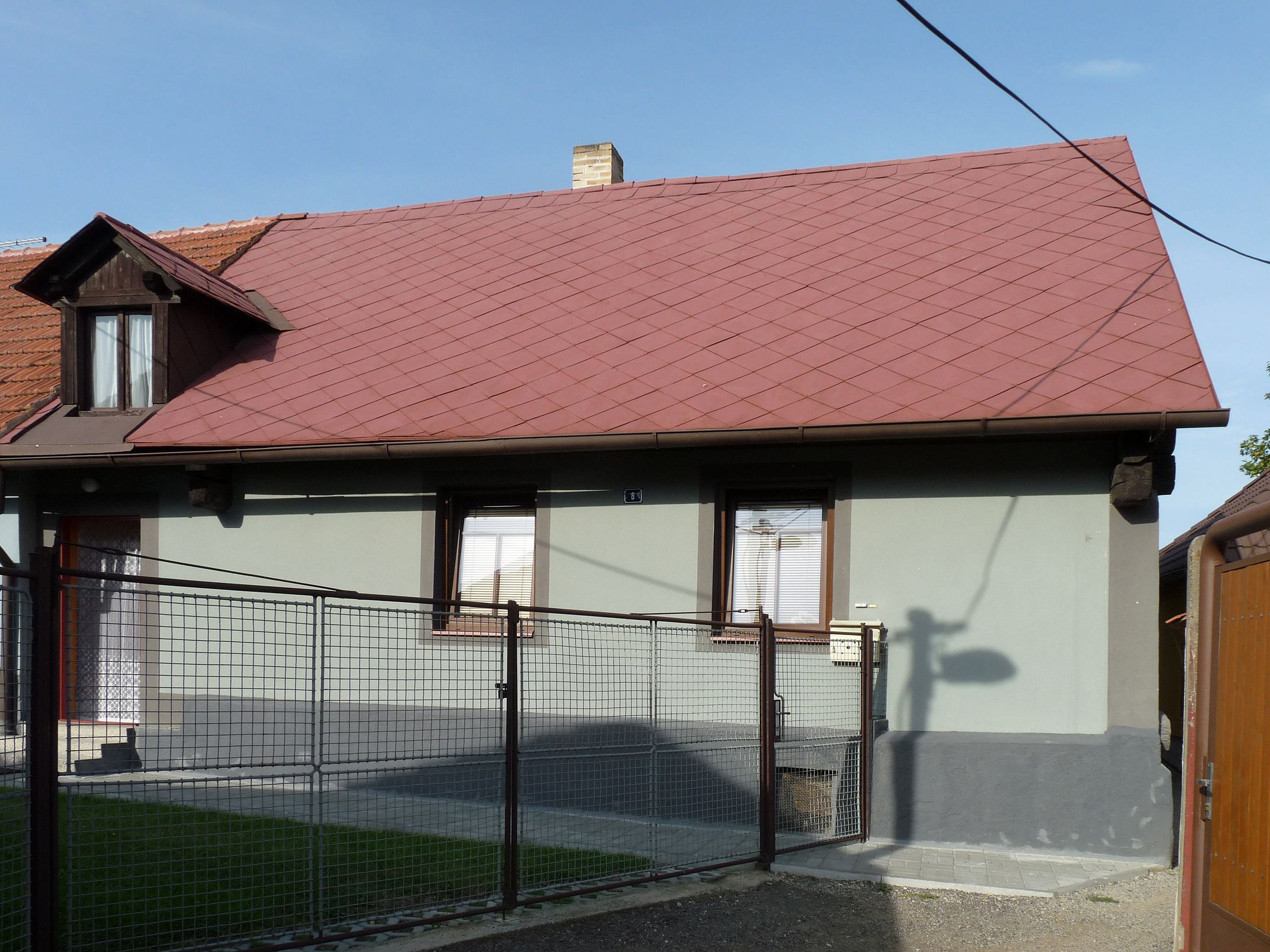 Former synagogue, now house No 6 in Husova Street in the town of Vlachovo Březí, Prachatice District, Czech Republic